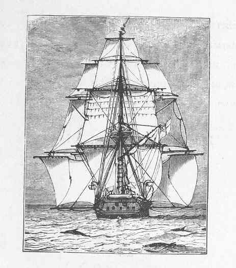 Sailing ship Subject: Sailing ships Tag: Vessels